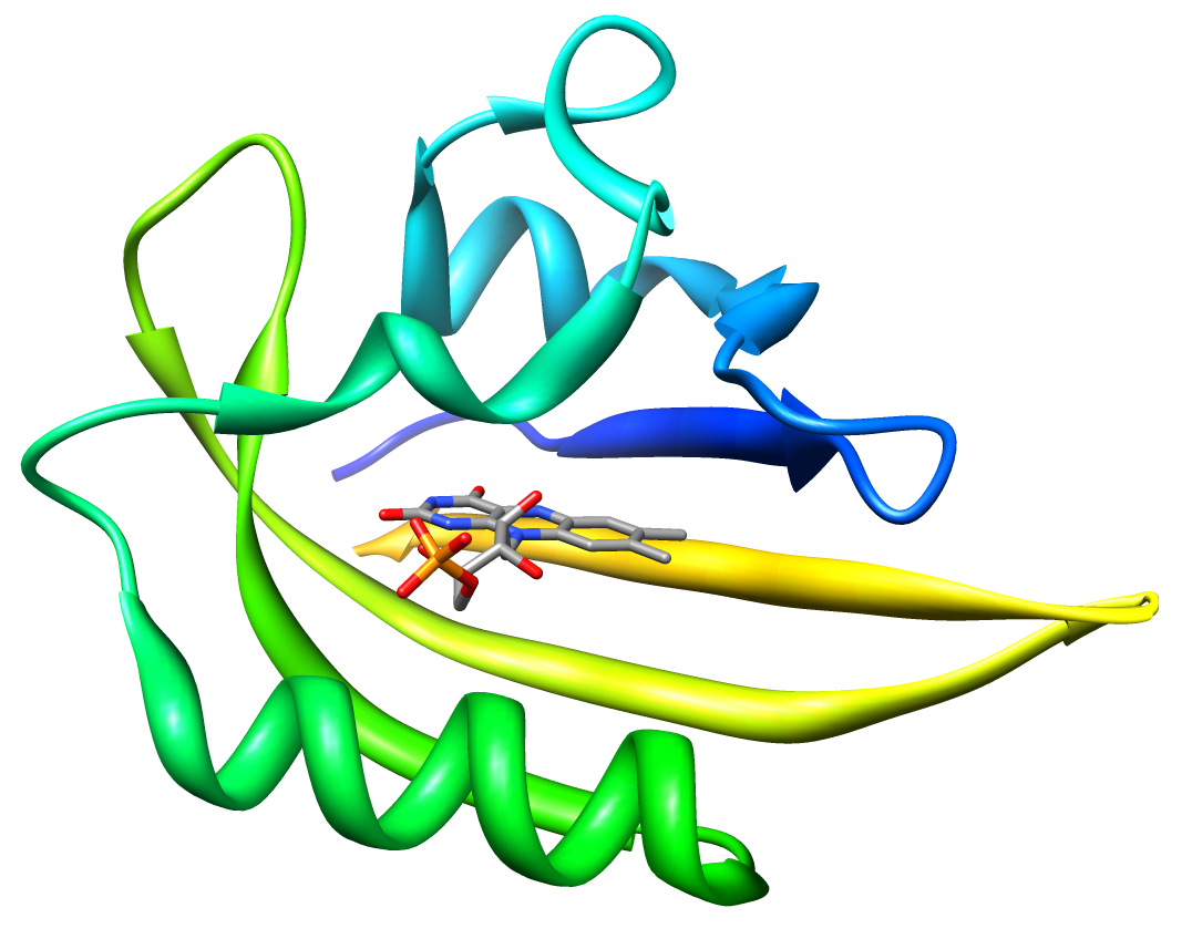 Typical secondary structure of the core-domain of a FMN-binding fluorescent protein.